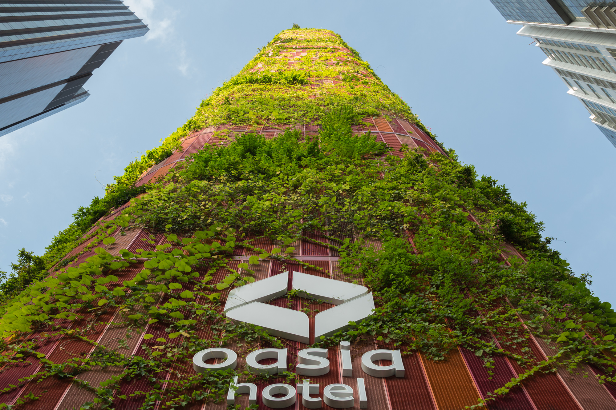 Oasia Hotel Downtown, Singapore by WOHA Architects